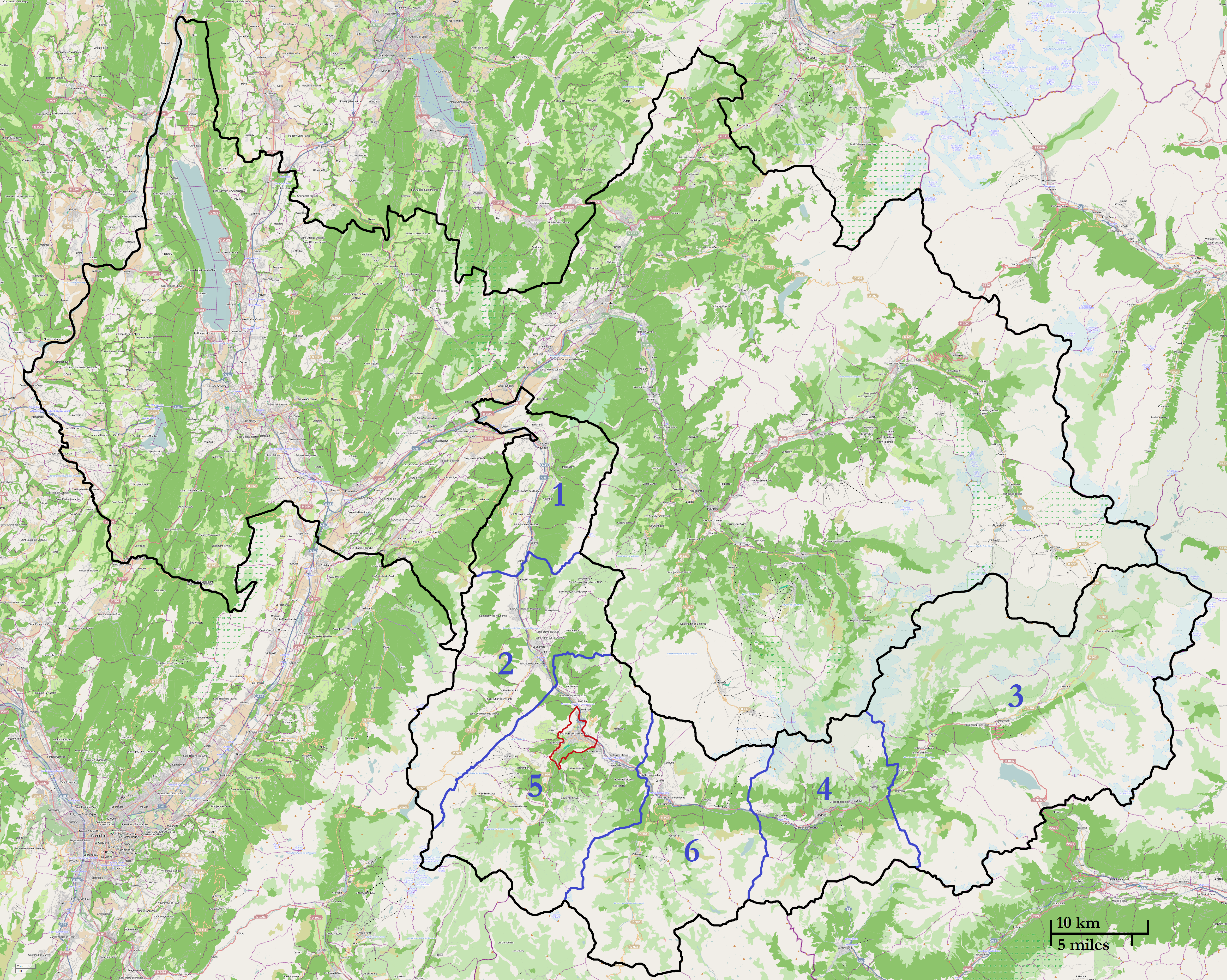 Map of the French department of Savoie. Are visible the 6 "cantons" (in blue) of the "arrondissement de Saint-Jean-de-Maurienne" (commune in red).